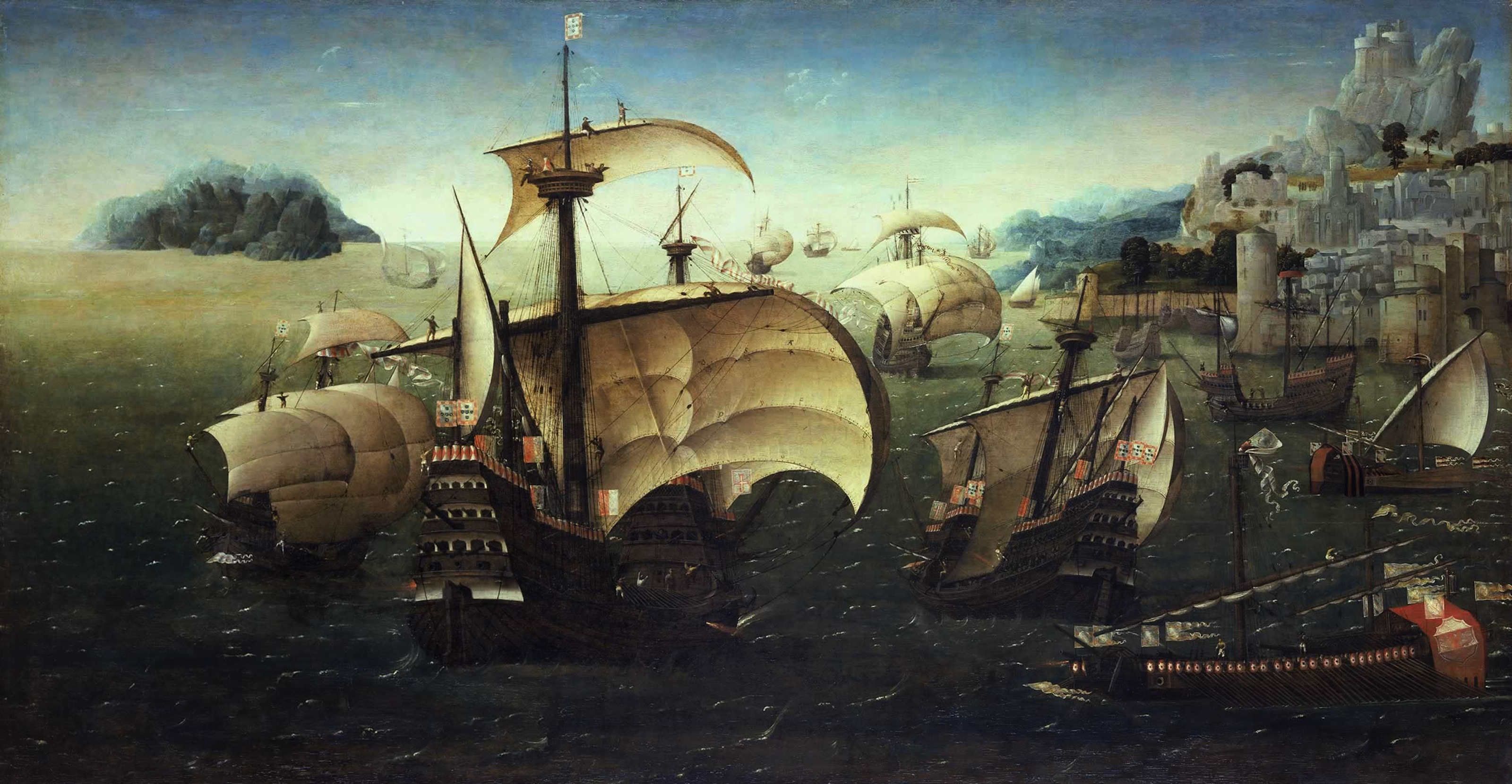 Portuguese carracks off a rocky coast.